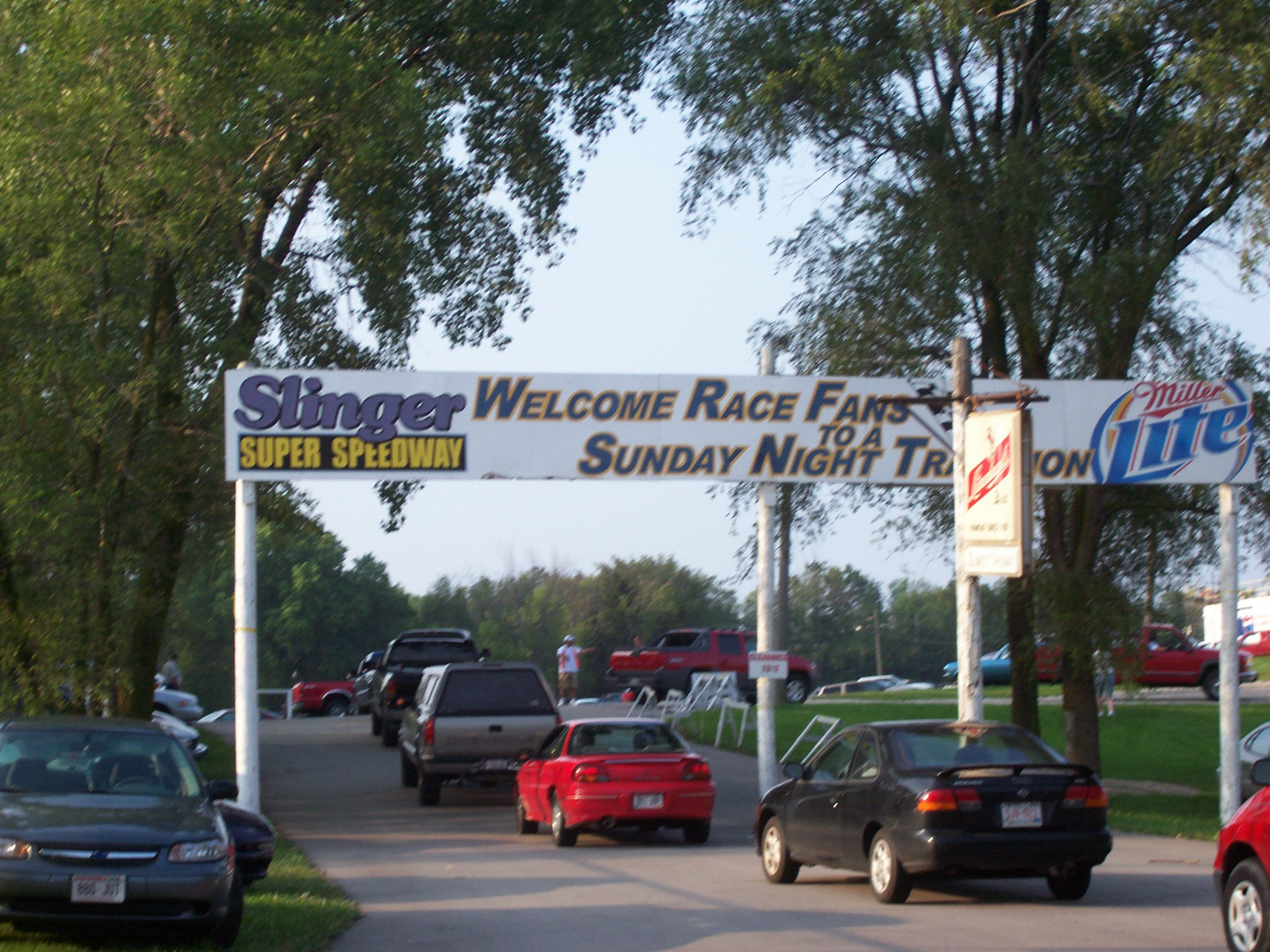 Image of entrance arch for Slinger Super Speedway in Slinger, Wisconsin